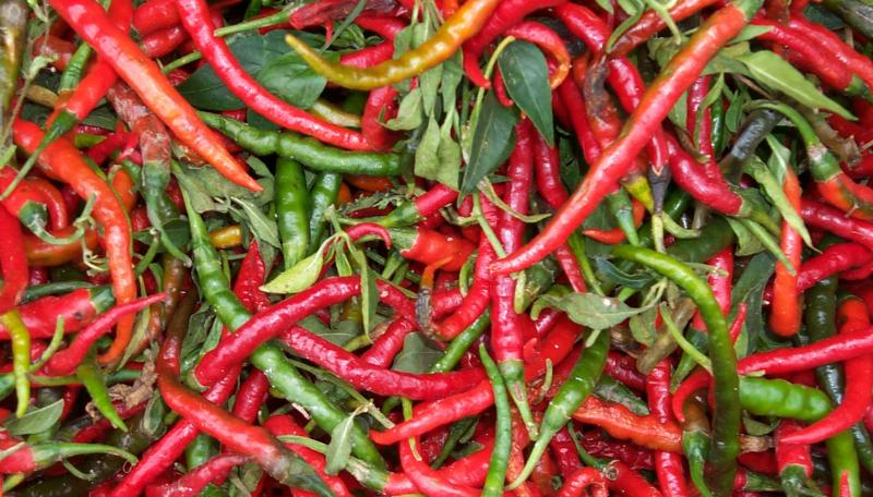 This photo was taken by Mark Richards, it is licensed under the GFDL. Mark Richards 16:56, 2 Oct 2004 (UTC) Imagem:Chillies.jpg